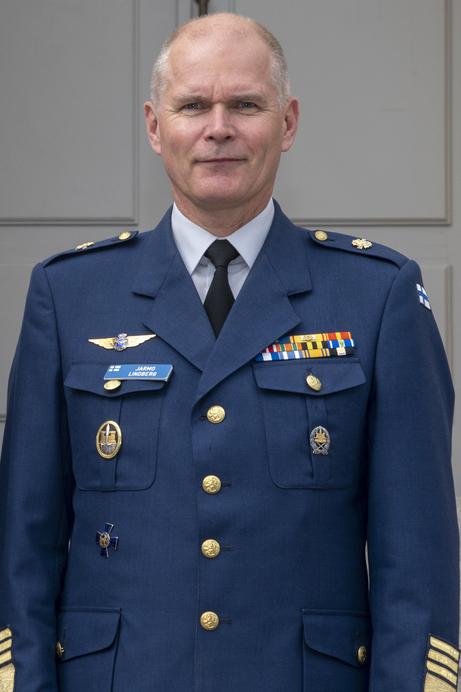 Marine Corps Gen. Joe Dunford, chairman of the Joint Chiefs of Staff, meets with Finnish Air Force Gen. Jarmo "Charles" Lindberg, commander of the Finnish Defense Forces, at the Finnish Defense Command in downtown Helsinki, Finland, June 7, 2018. (DOD photo by Navy Petty Officer 1st Class Dominique A. Pineiro)